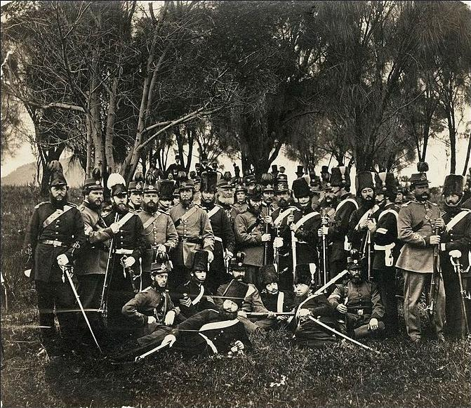 Members of the South Australian Volunteer Forces consisting of Infantry and Artillery personnel. 1860.